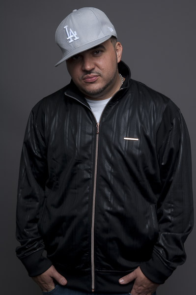 DJ Felli Fel in Beverly Hills, CA